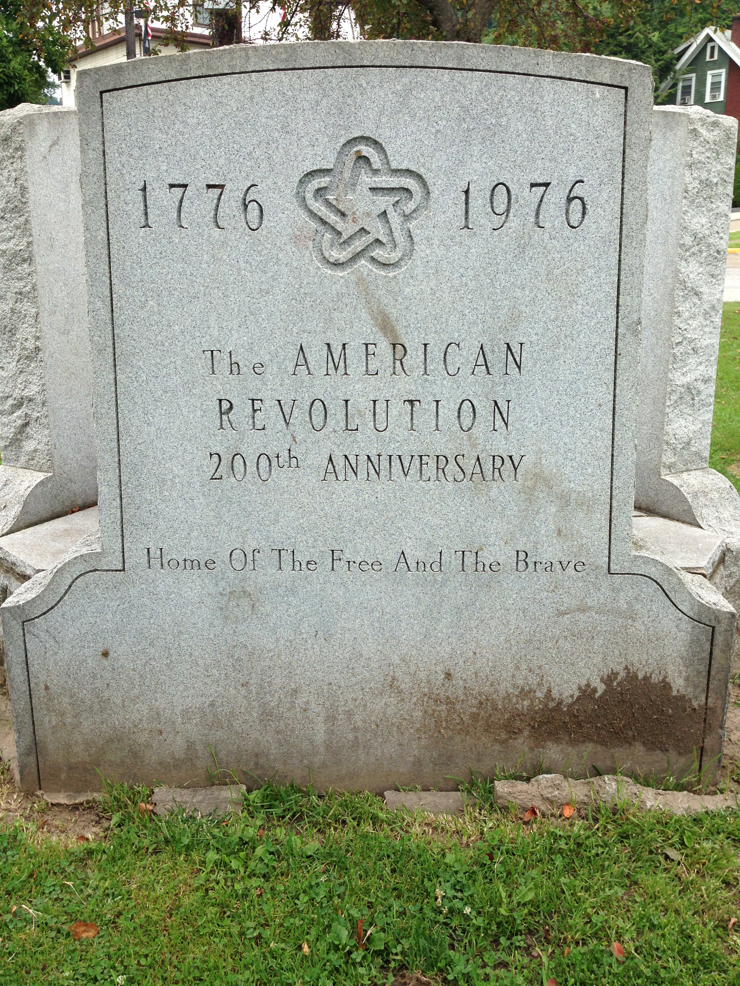 Memorial located at Kennedy Park.